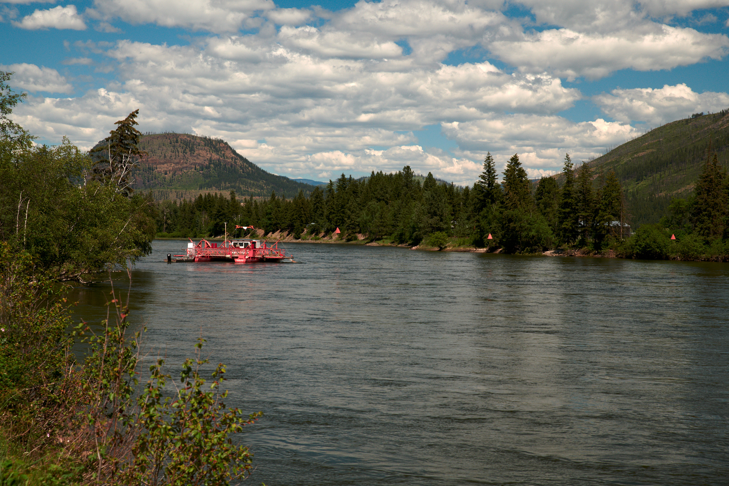 Reaction ferry on the North Thompson River at McLure BC (~50km north of Kamloops BC)